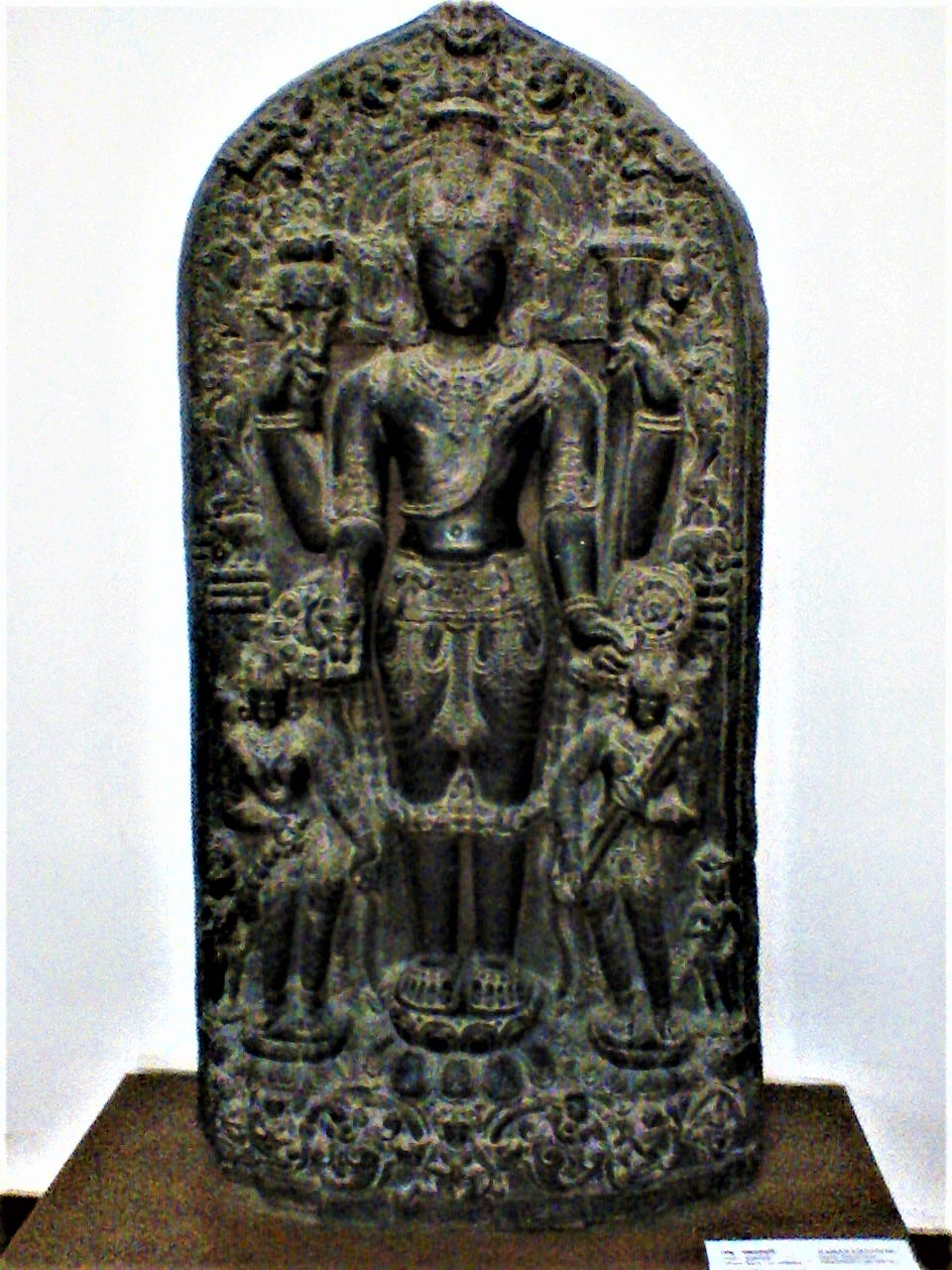 It is stone sculpting of hindu god Vishnu from National Museum of Bangladesh